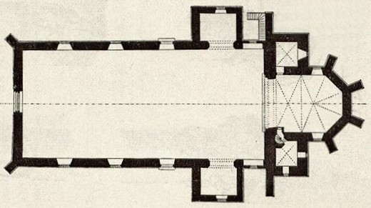 ground plan of th church St. Laurentius in Kenzingen, Baden-Württemberg, Germnany